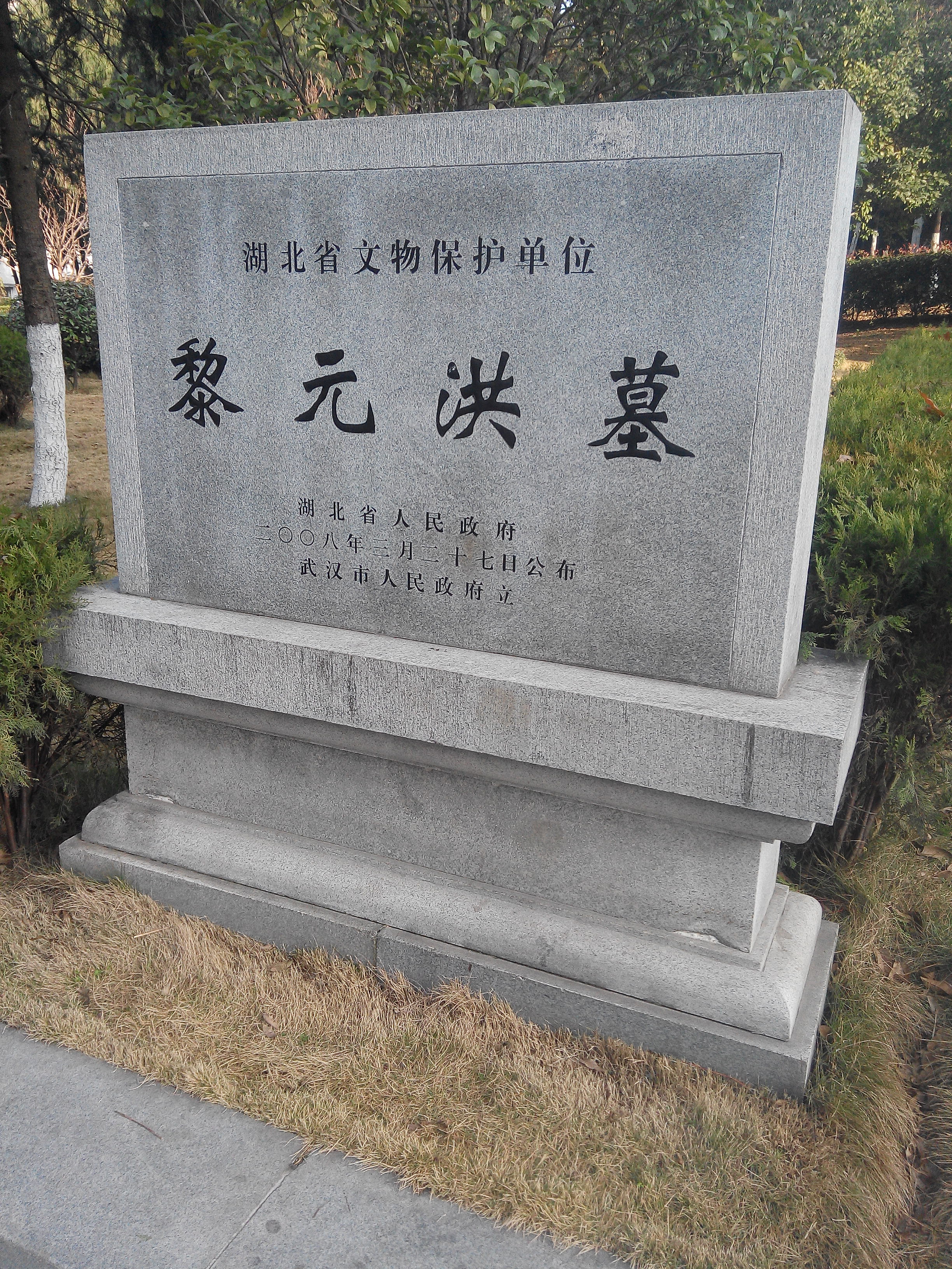 Tomb of Li Yuanhong, Wuhan, Central China Normal University Text: 湖北省文物保护单位 黎元洪墓 湖北省人民政府 二〇〇八年三月二十七日公布 武汉市人民政府立